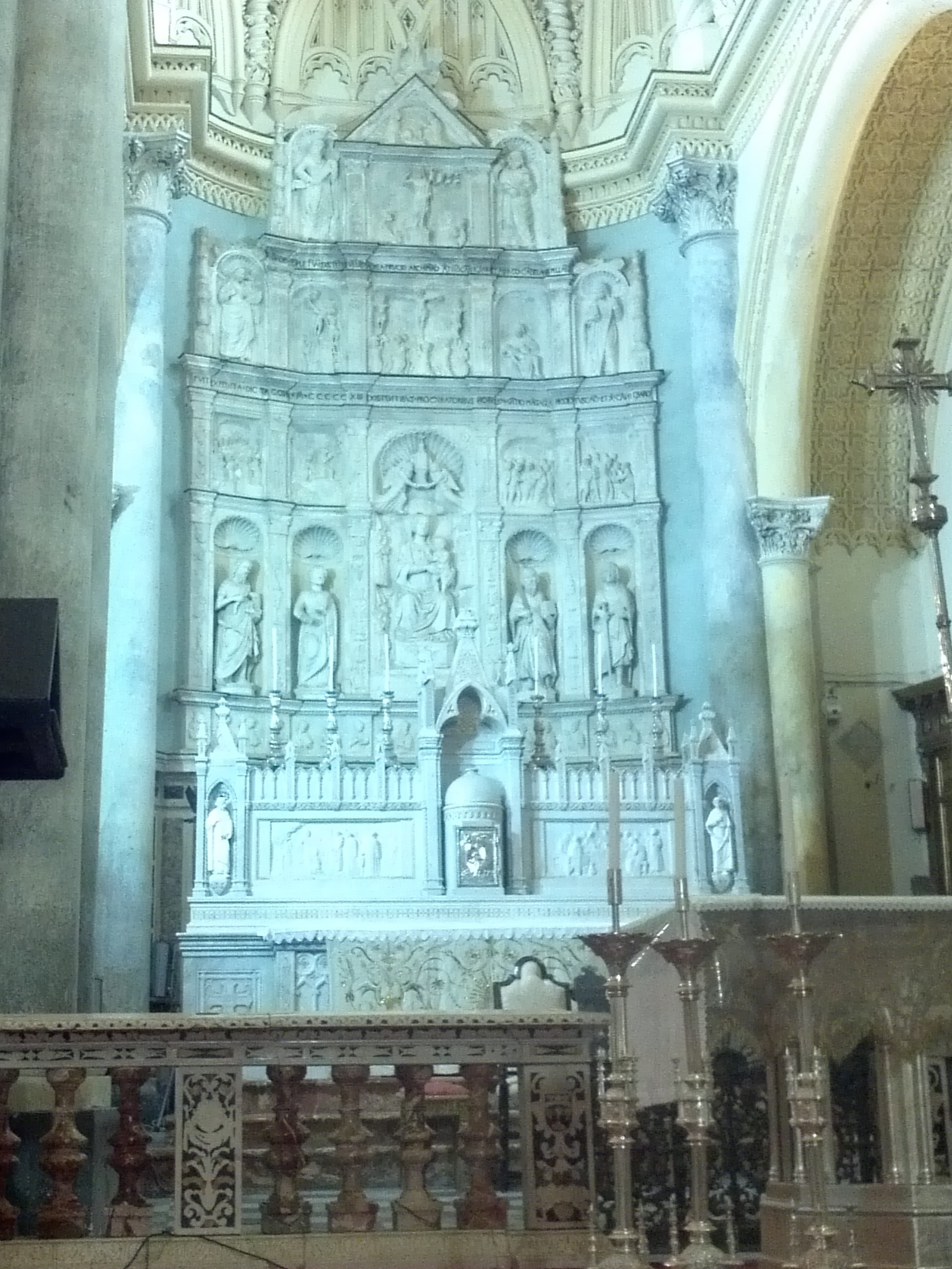 Chiesa Madre Erice Sicily.